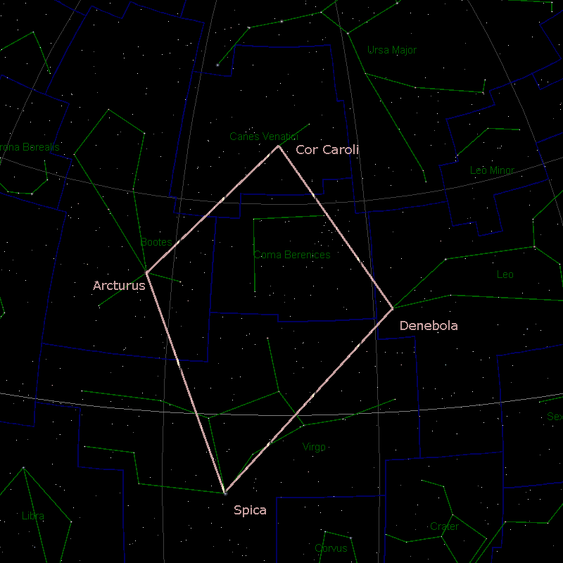 Great Diamond map Credit: WikiSky Images created using WikiSky tools Source: [1]